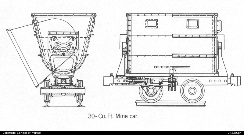 30-Cu. Ft. Mine car. United Verde Extension Mining Company, Arizona.